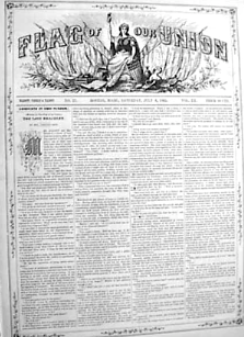 FLAG OF OUR UNION, Boston, July 8, 1865